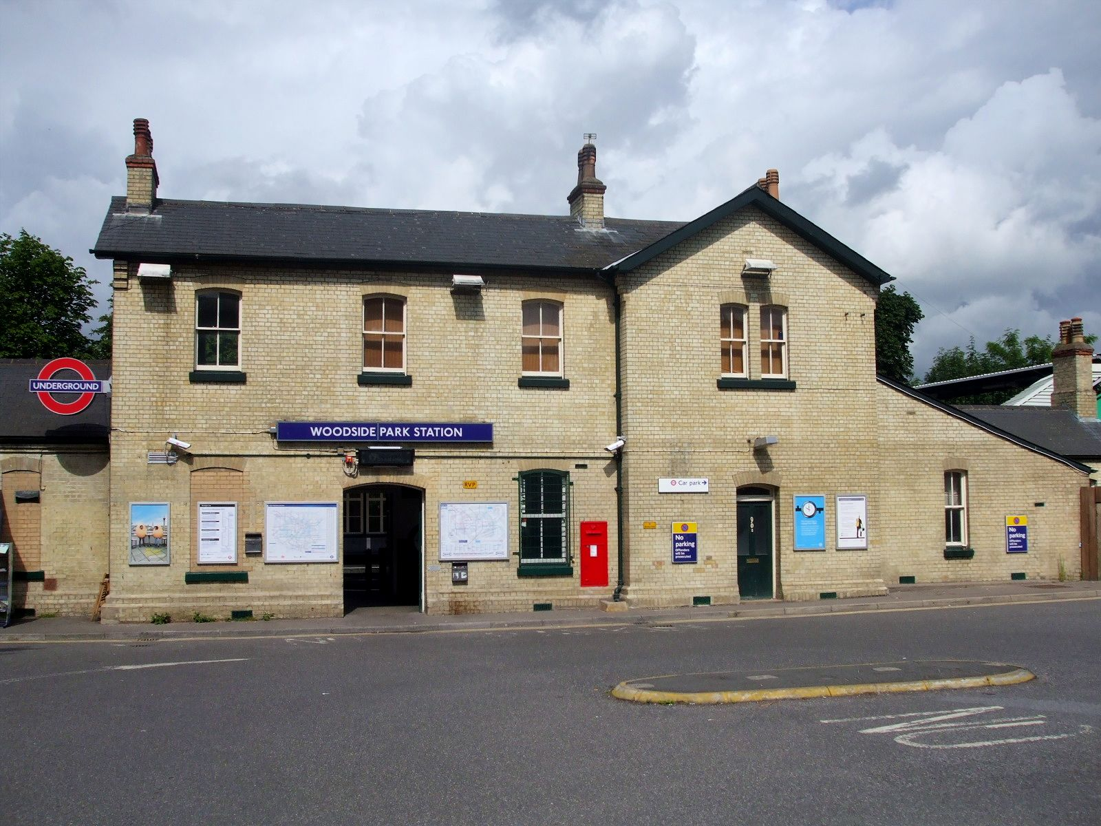 Woodside Park tube station main building